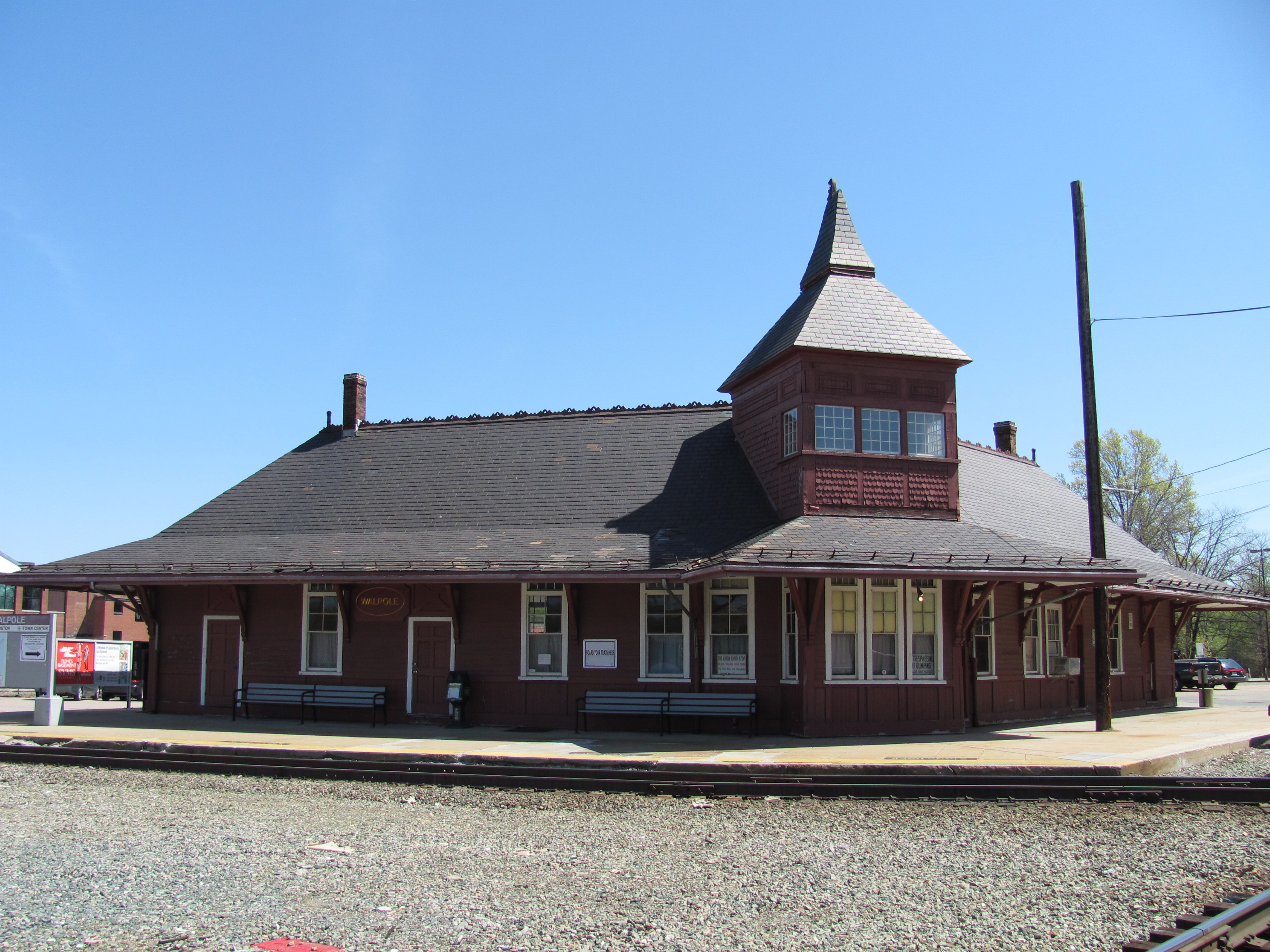 Walpole Union Station, Walpole Massachusetts